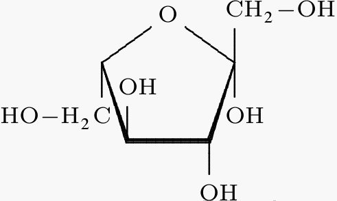 Beta-L-Fructose structure